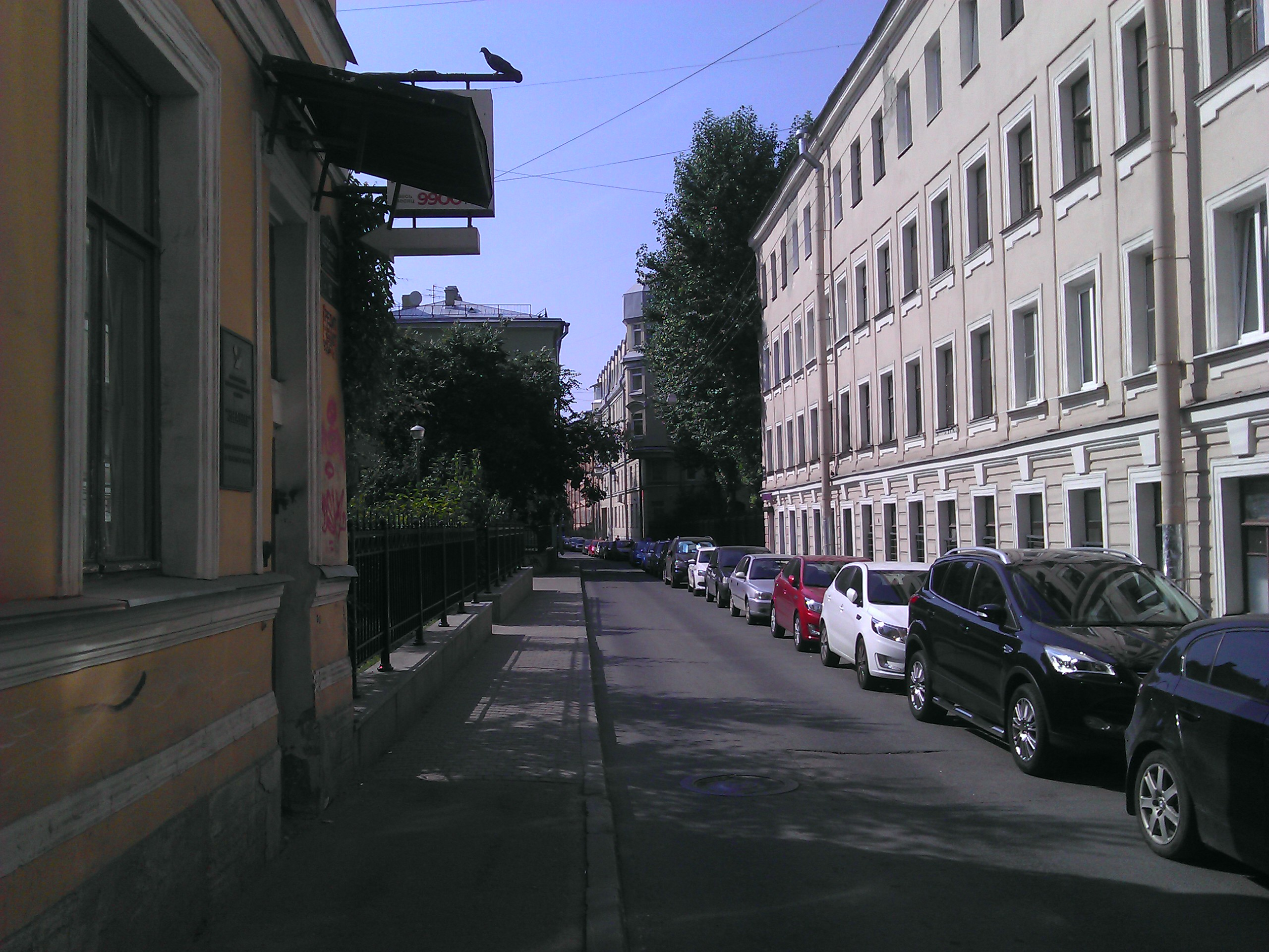 Manevich and Eduard Khil squares on Scherbakov lane in Saint Petersburg, Russia.